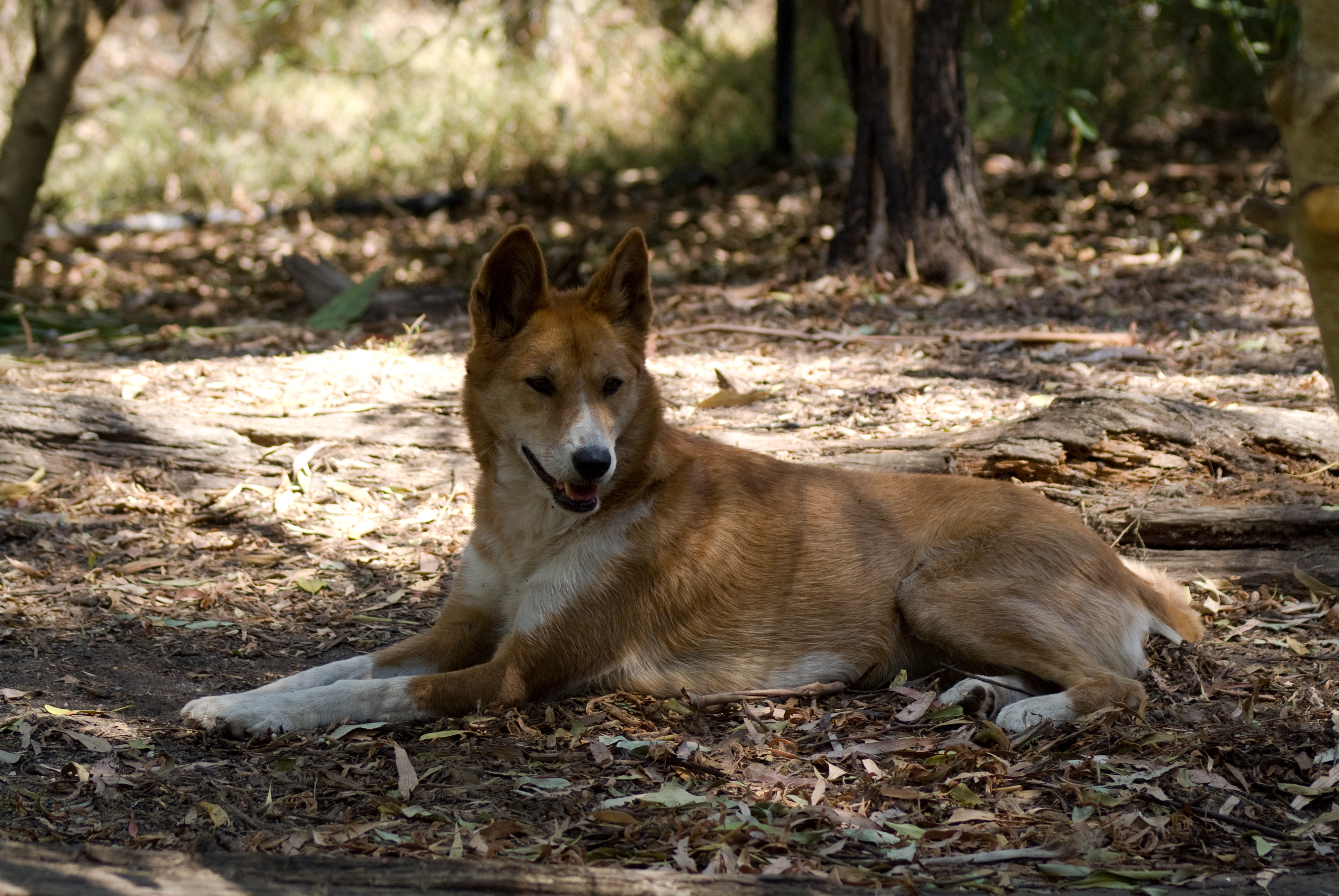 a dingo who is just relaxing ;)